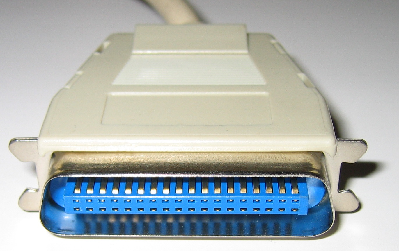 A Centronics interface connector Photo taken by Michael Krahe, 2005-05-07. Licensed under the GFDL.